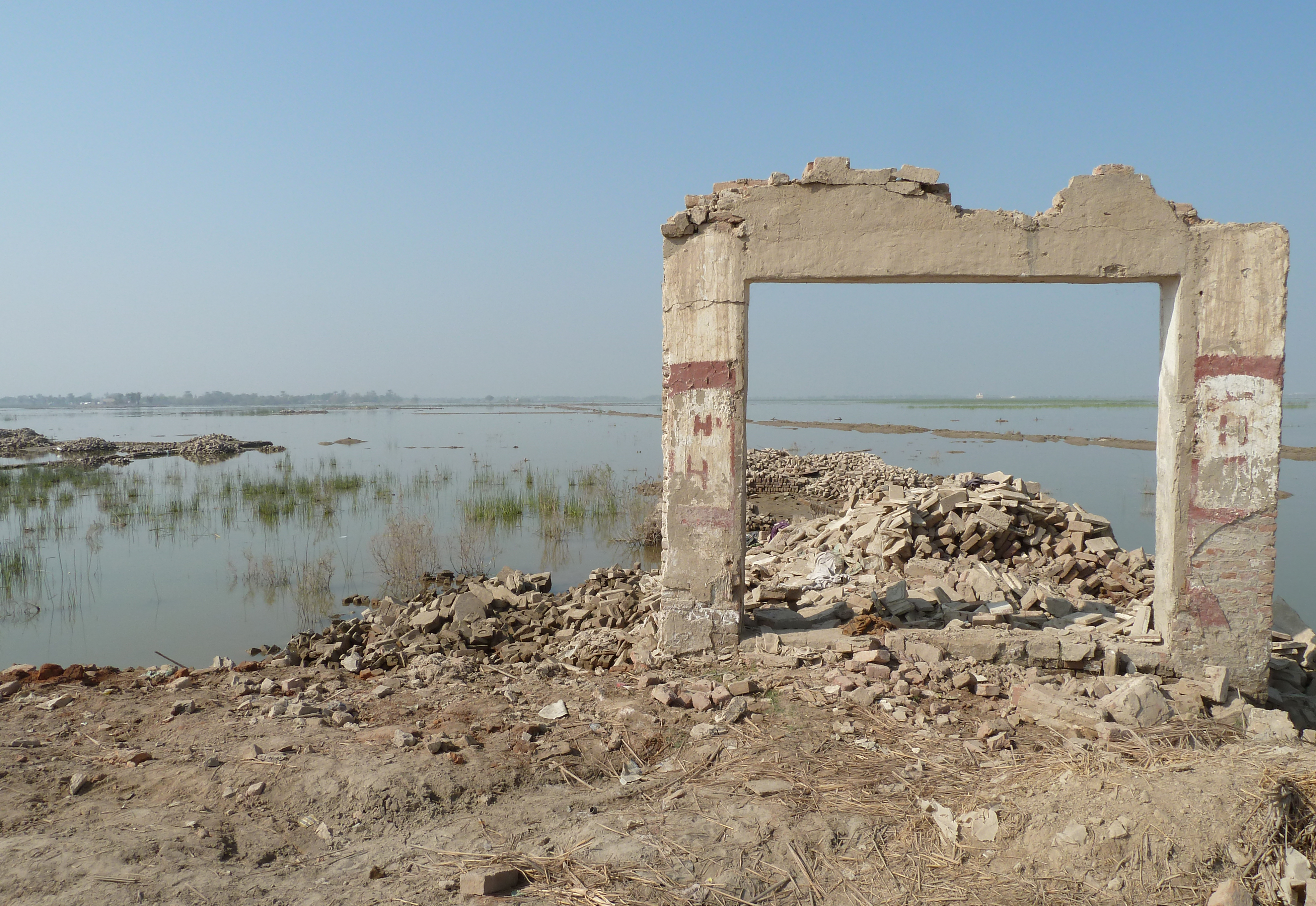 The entrance gate to this school is all that's left standing after the rest of the building was completely destroyed by flood water in Pakistan's Sindh province. Thousands of acres of land remain flooded, even six months on from the initial rainfall in July 2010. Find out more about the UK government's response to the Pakistan floods at Image: DFID/Magnus Wolfe-Murray Terms of use This image is posted under a Creative Commons - Attribution Licence, in accordance with the Open Government Licence. You are free to embed, download or otherwise re-use it, as long as you credit the source as 'Department for International Development'.